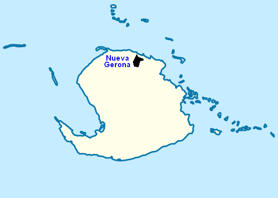 A locator map of the town of Nueva Gerona (shown in black) within the Isla de la Juventud, Cuba.